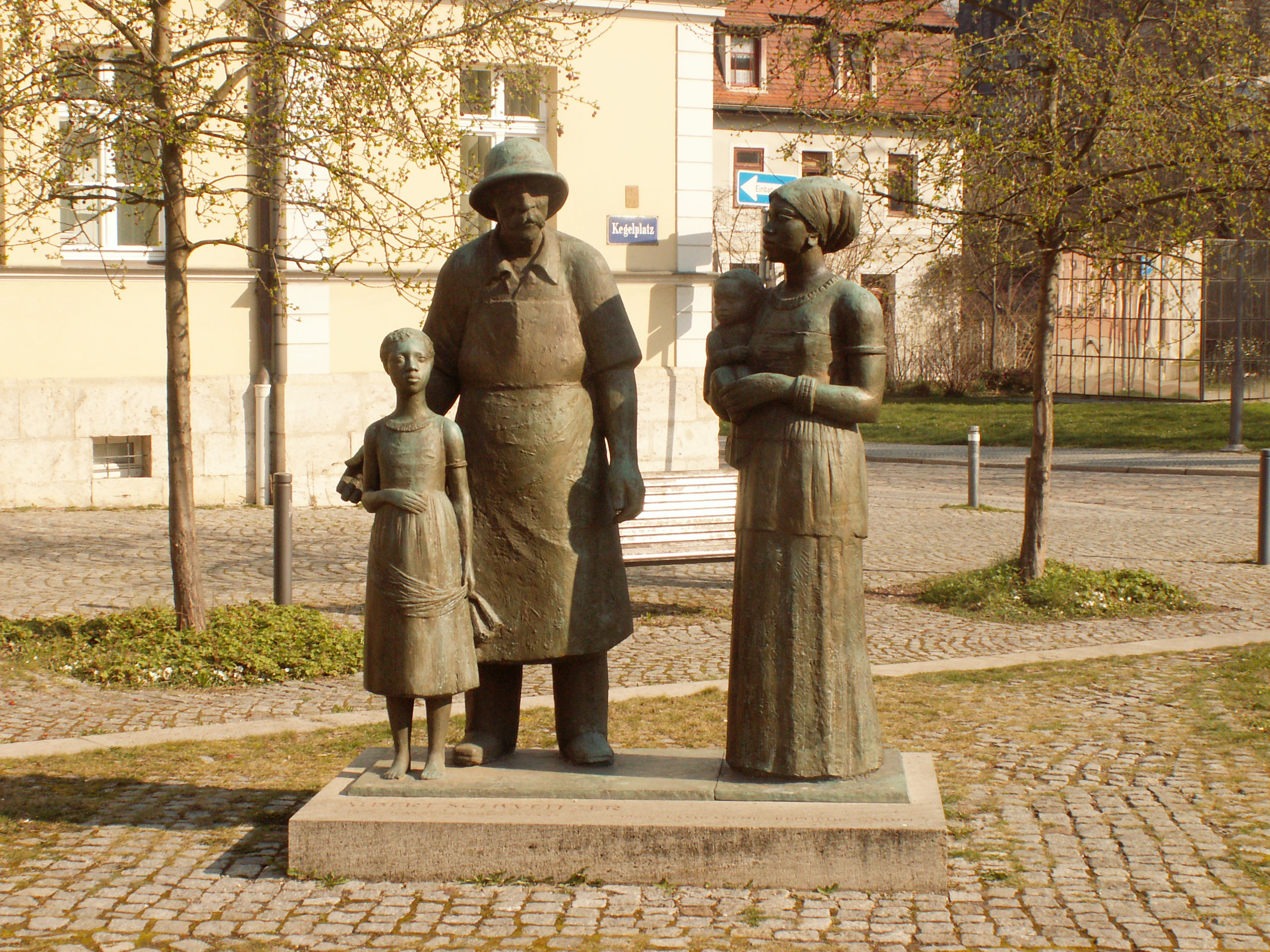 Albert Sweitzer, Weimer Ilmpark.